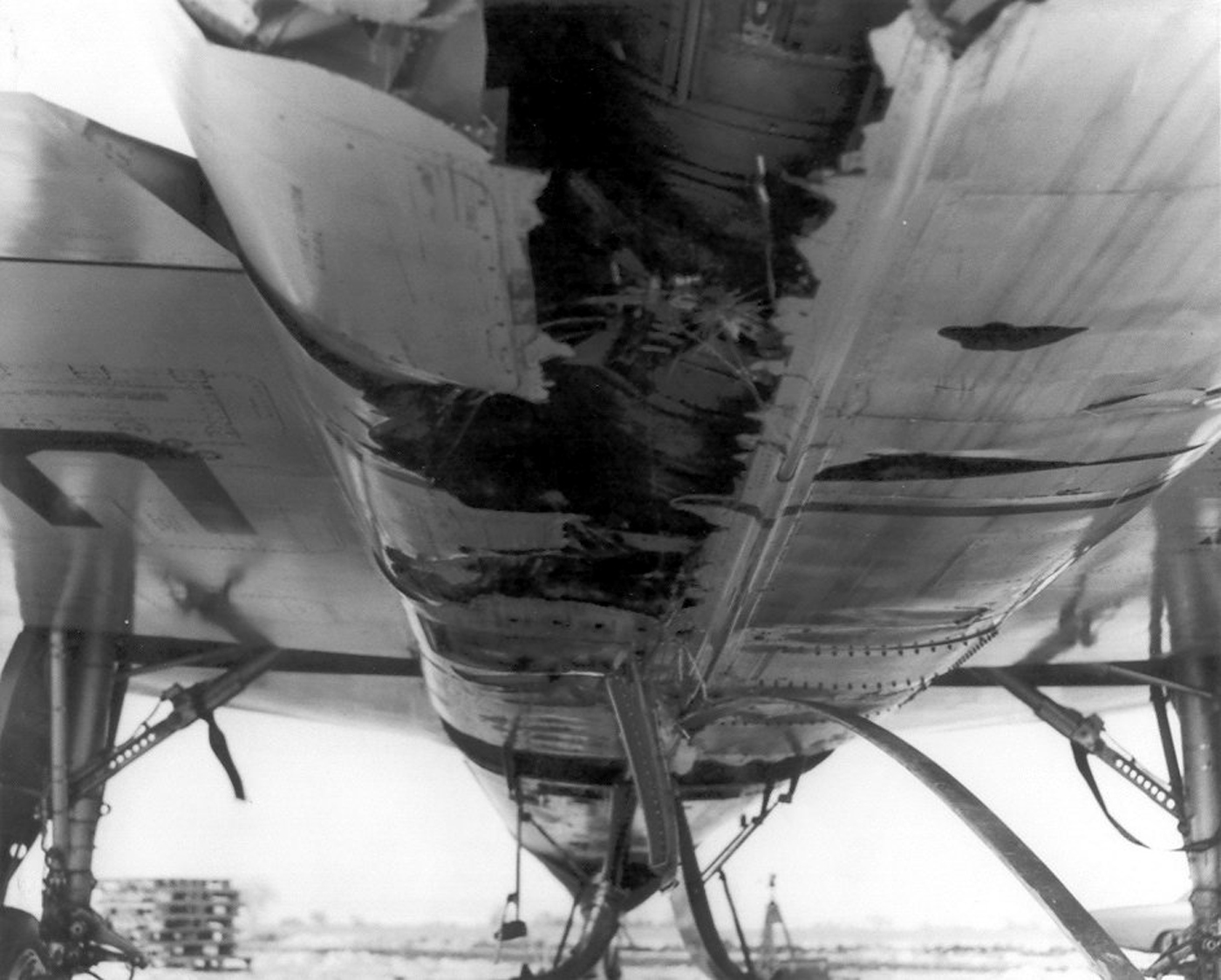 PLANE LANDS ITSELF AFTER PILOT EJECTS - This F-106A (S/N 58-0787) was involved in an unusual incident. During a training mission, it entered an flat spin forcing the pilot to eject. Unpiloted, the aircraft recovered on its own and miraculously made a gentle belly landing in a snow-covered field. (U.S. Air Force photo)